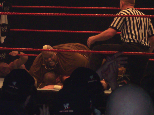 Viscera humping Trevor Murdoch @ Adelaide, South Australia 'RAW' house show on the 28th October 2005